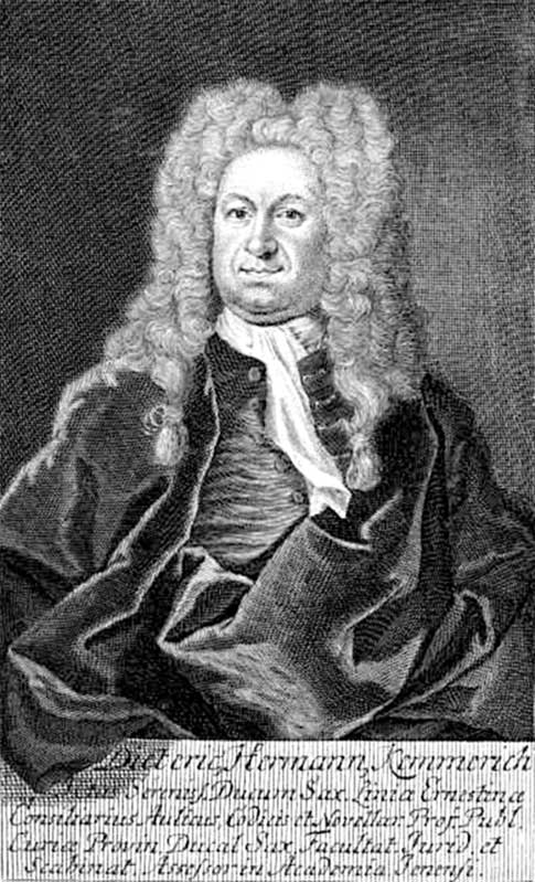 Portrait of Dietrich Hermann Kemmerich (1677-1745), German jurist